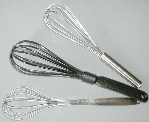 three egg-beater, whisks (two iron, one plastic)